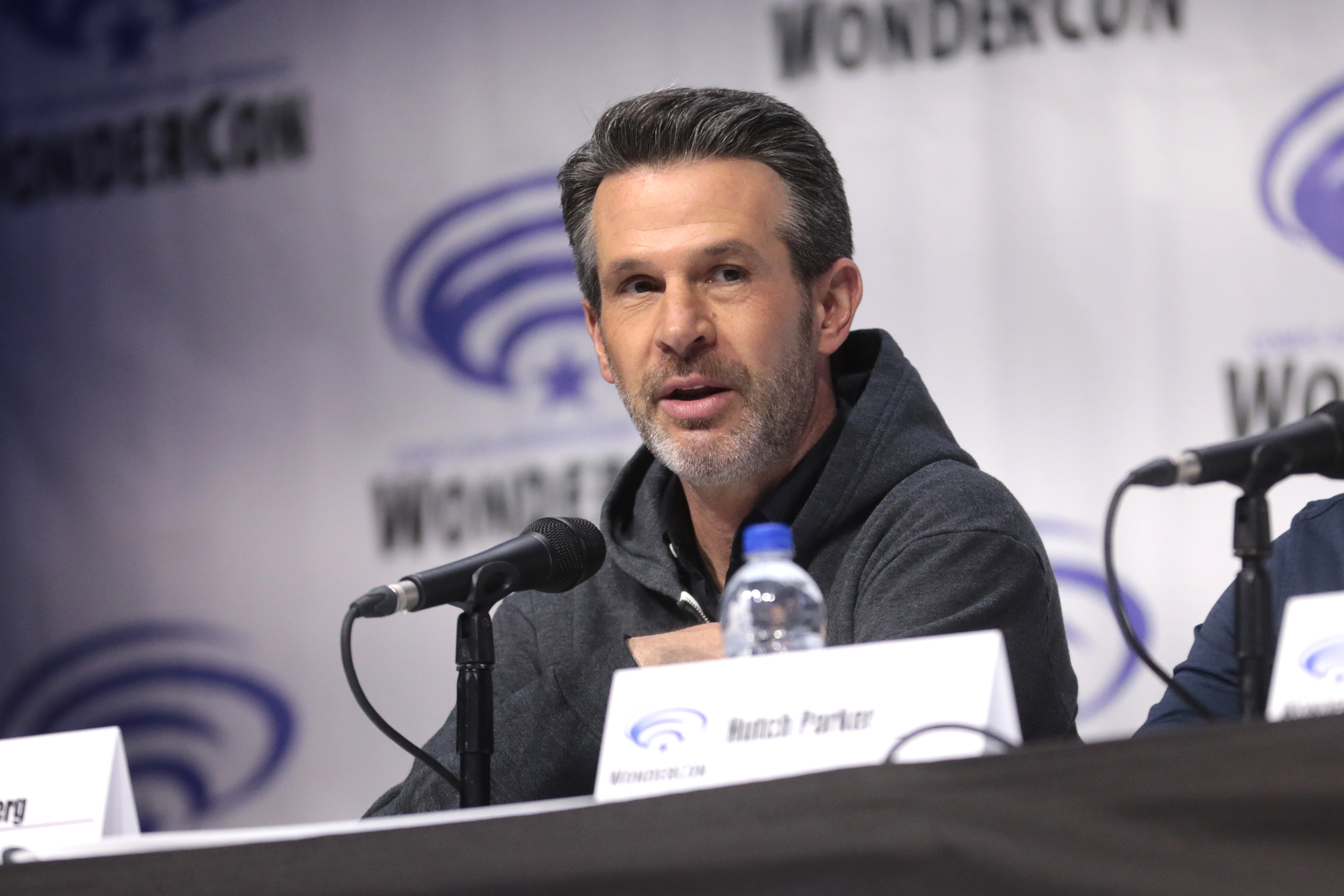 Simon Kinberg speaking at the 2019 WonderCon, for "Dark Phoenix", at the Anaheim Convention Center in Anaheim, California.